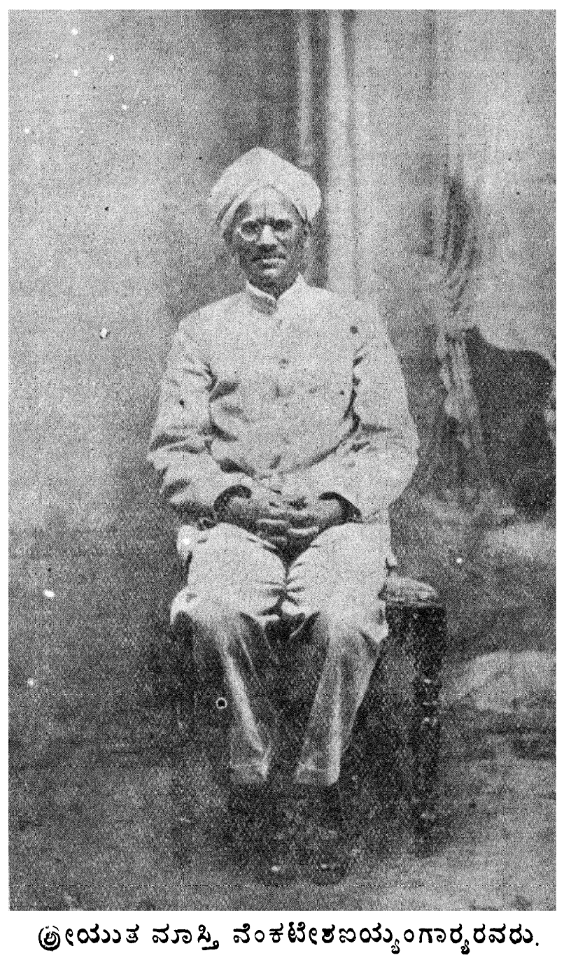 In his middle age, probably when he was still in service.